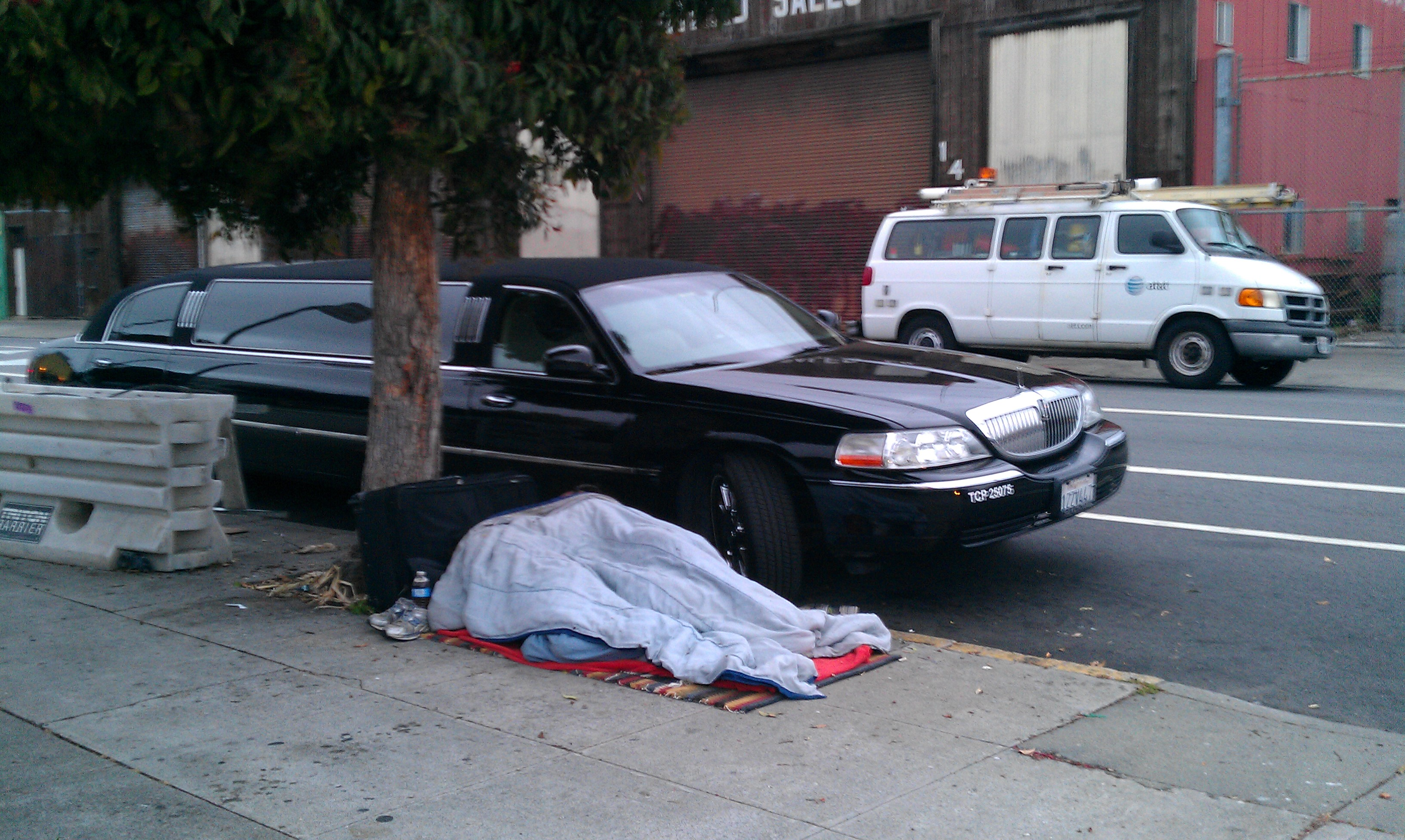 A homeless person sleeping next to a limousine in San Francisco's Mission District.